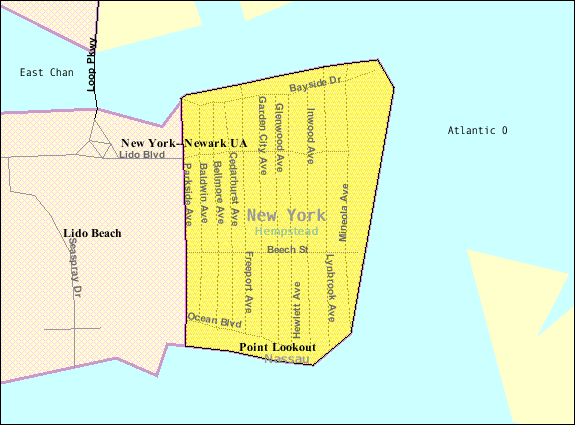 U.S. Census 2000 reference map for Point Lookout, New York